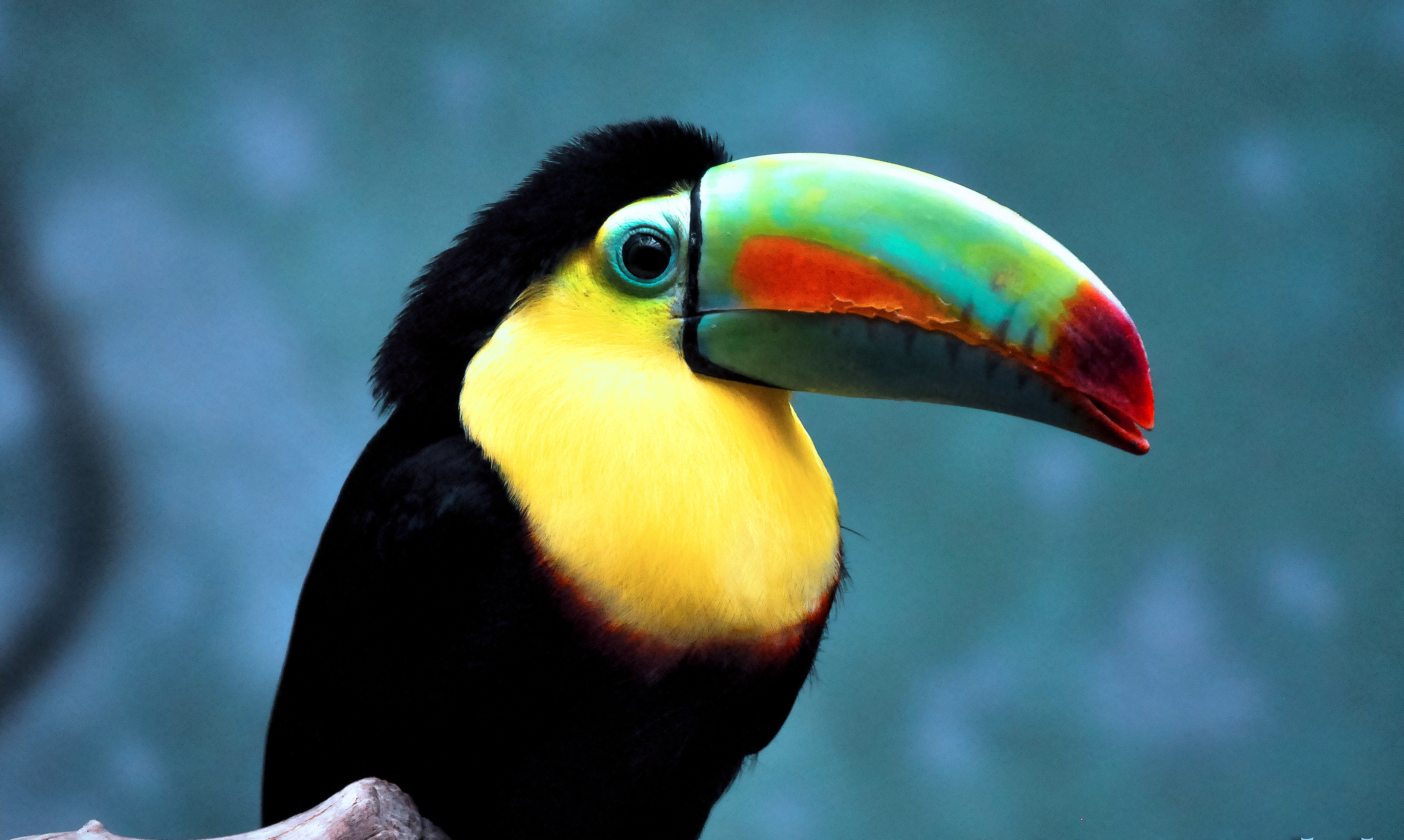 Ramphastos sulfuratus brevicarinatus, Woodland Park Zoo, Seattle, Washington